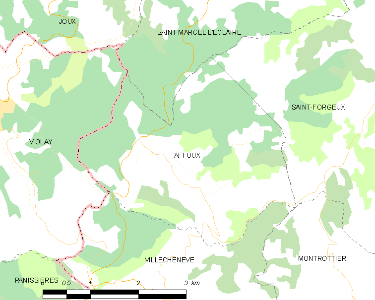 Map of French municipality